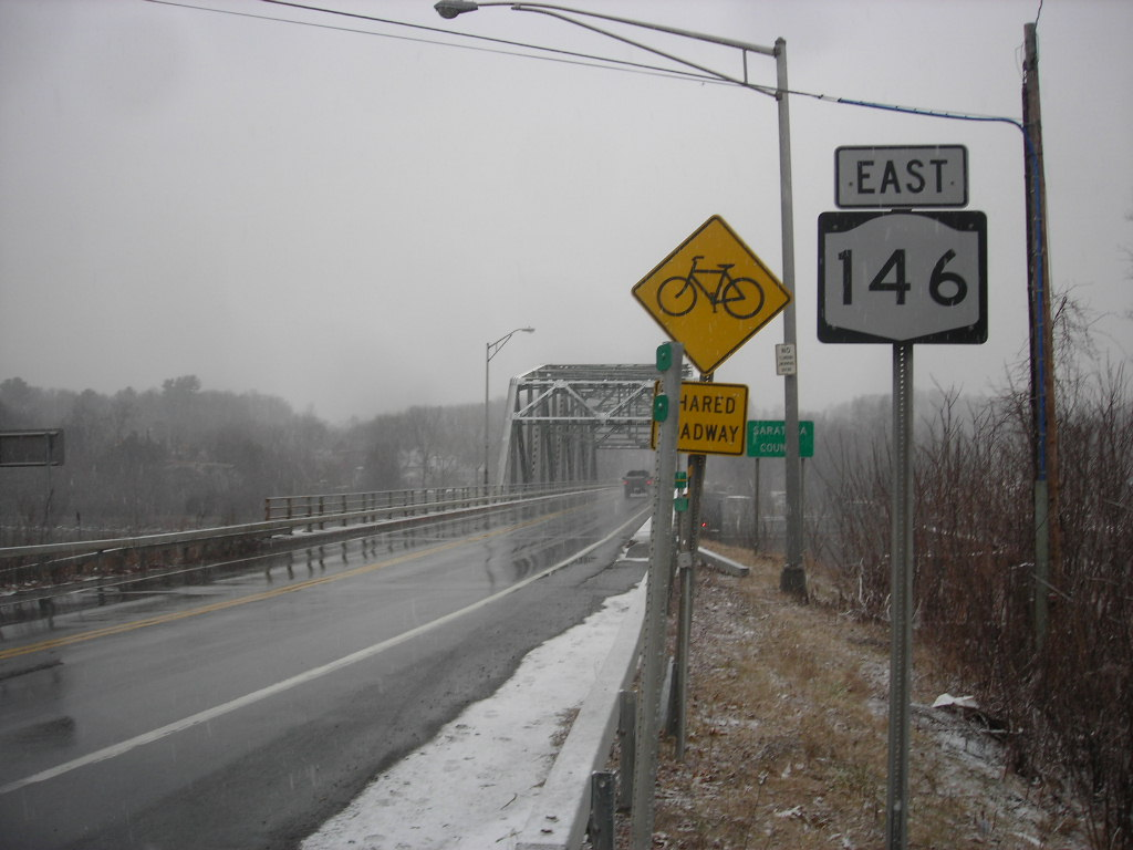 New York State Route 146 heading eastbound at the Mohawk River bridge in Schenectady County and Saratoga County, New York.